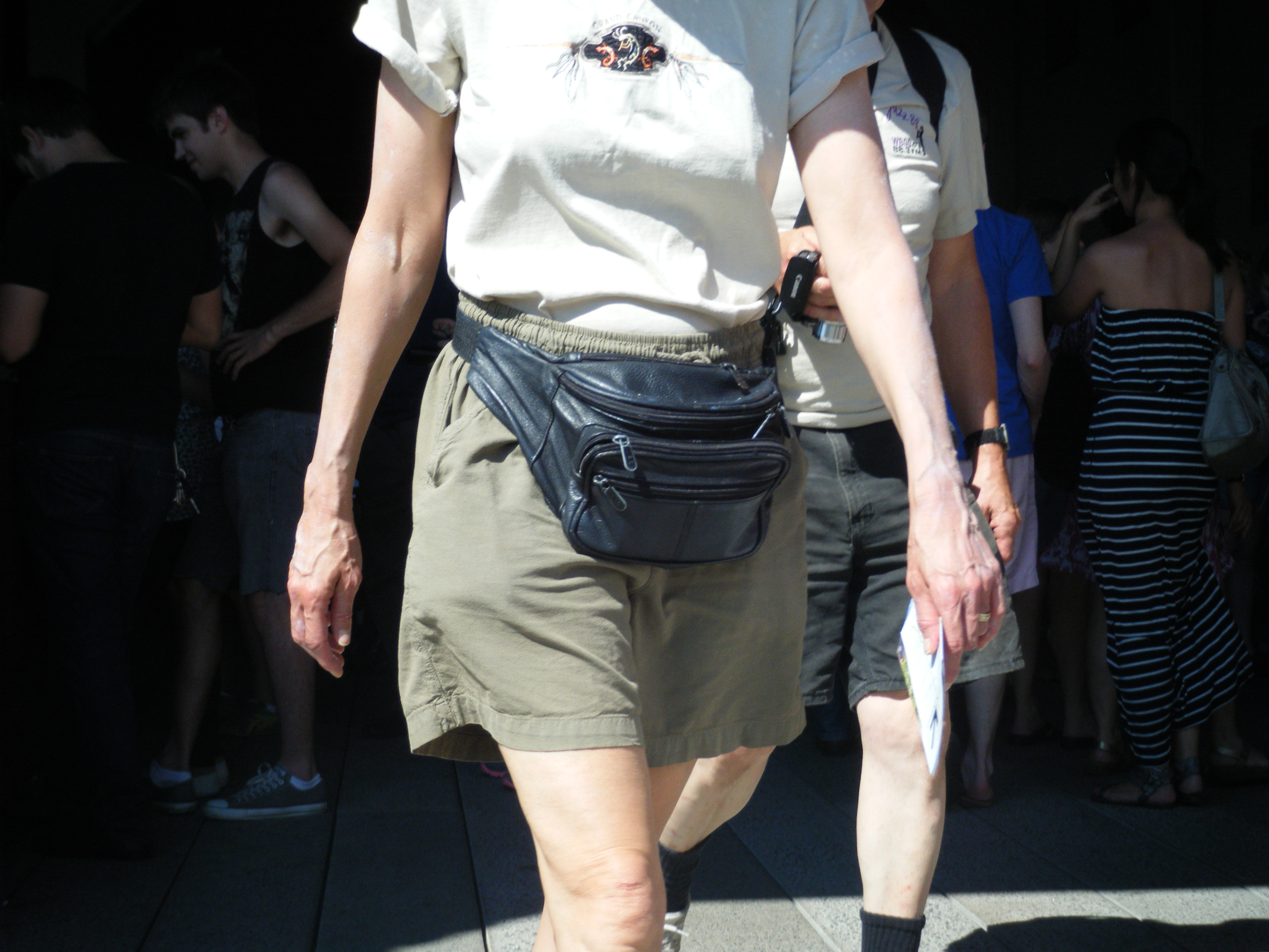 A woman sporting a black leather fanny pack.